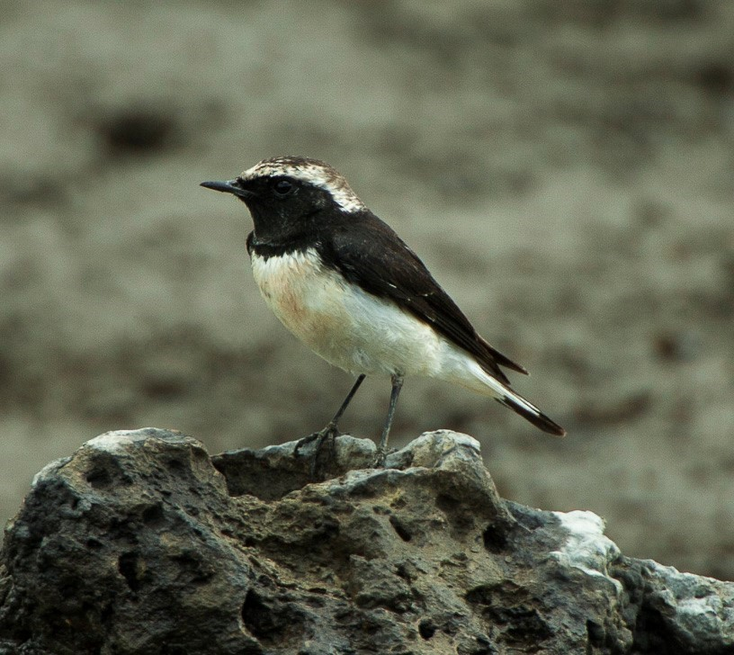 Pied Wheatear - Tanzania_2008-02-29_0225